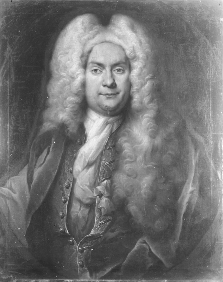 Portrait of Gottfried Leonhard Baudis the Elder (1683-1739) Jurist from Germany